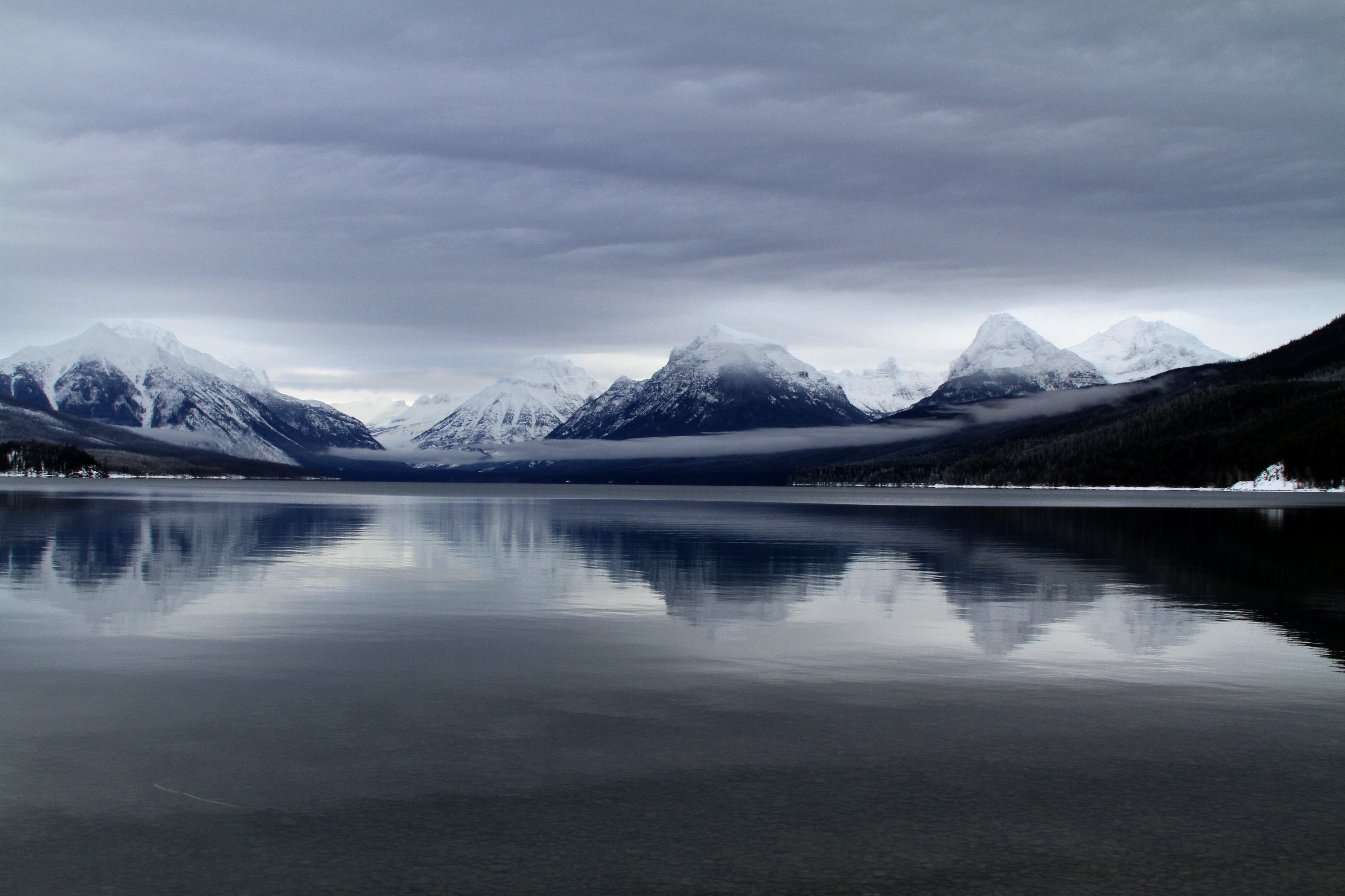 One of the many faces of Lake McDonald, under a layer of Stratus opacus undulatus clouds. Photo: David Restivo, NPS